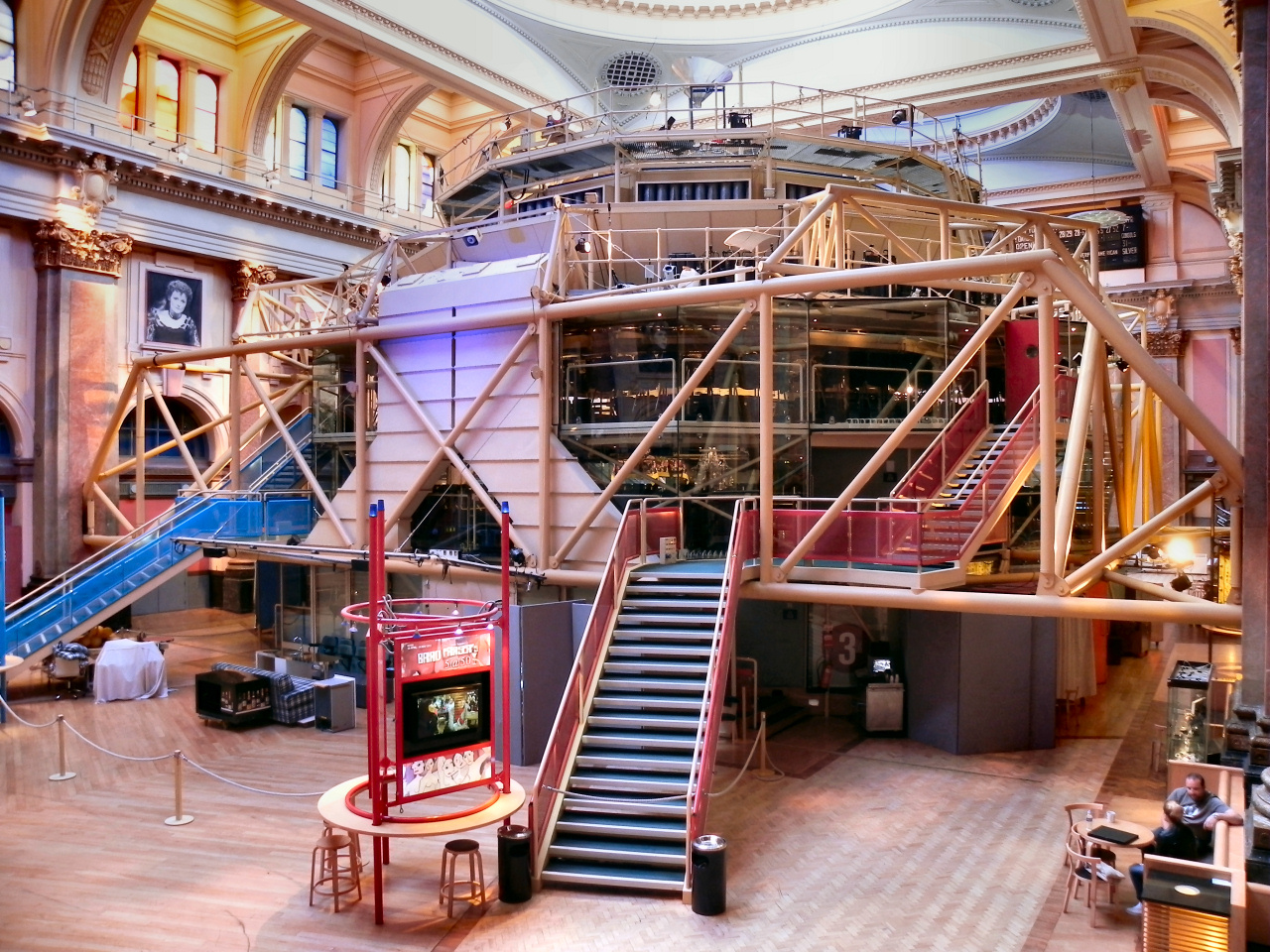 The circular theatre pod which sits in the hall of the Royal Exchange Building in Manchester, England